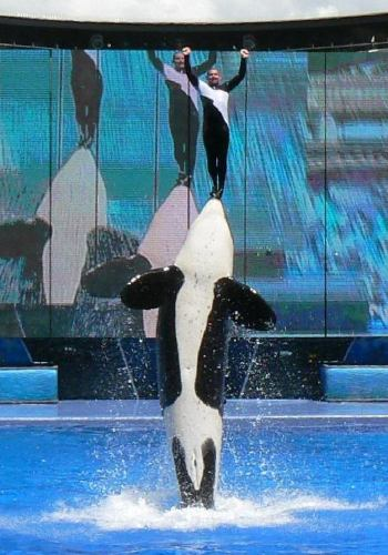 Orca and performer at SeaWorld, Orlando FL